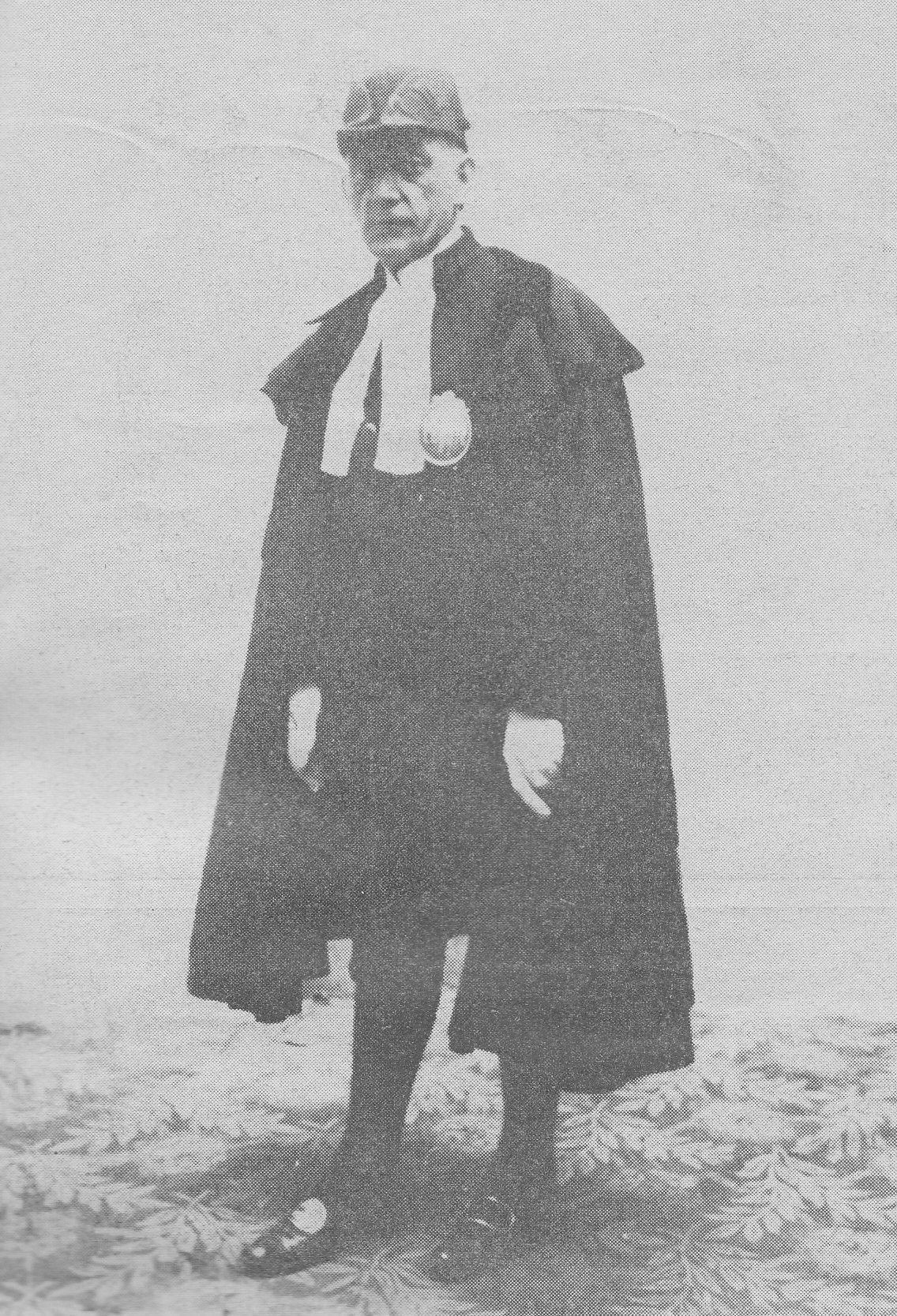 Servant of Misericordia Confraternity of Pisa, Tuscany, Italy.